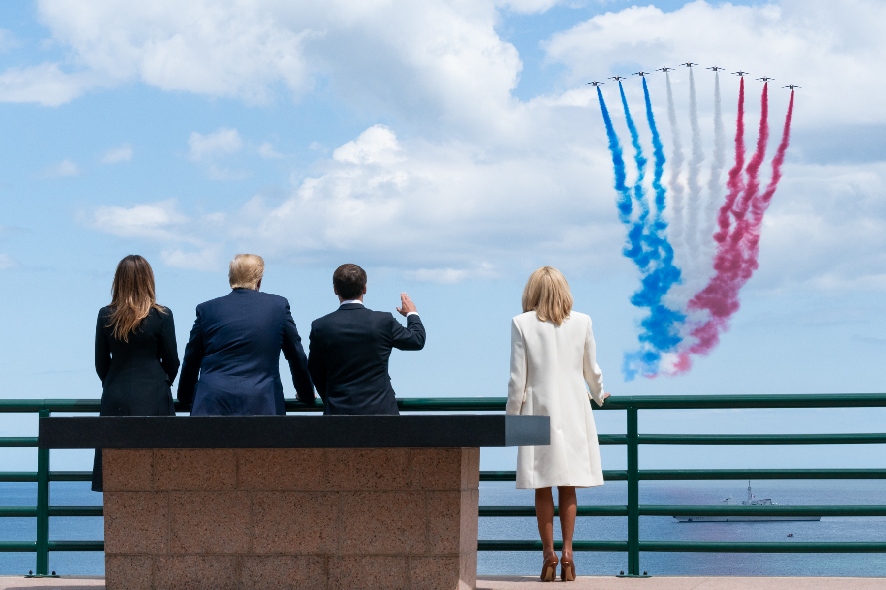 President Donald J. Trump and First Lady Melania Trump, joined by French President Emmanuel Macron and his wife Mrs. Brigitte Macron, watch a flyover by a French Republic air demonstration team trailing red, white and blue smoke Thursday, June 6, 2019, at the Normandy American Cemetery in Normandy, France. (Official White House Photo by Andrea Hanks)